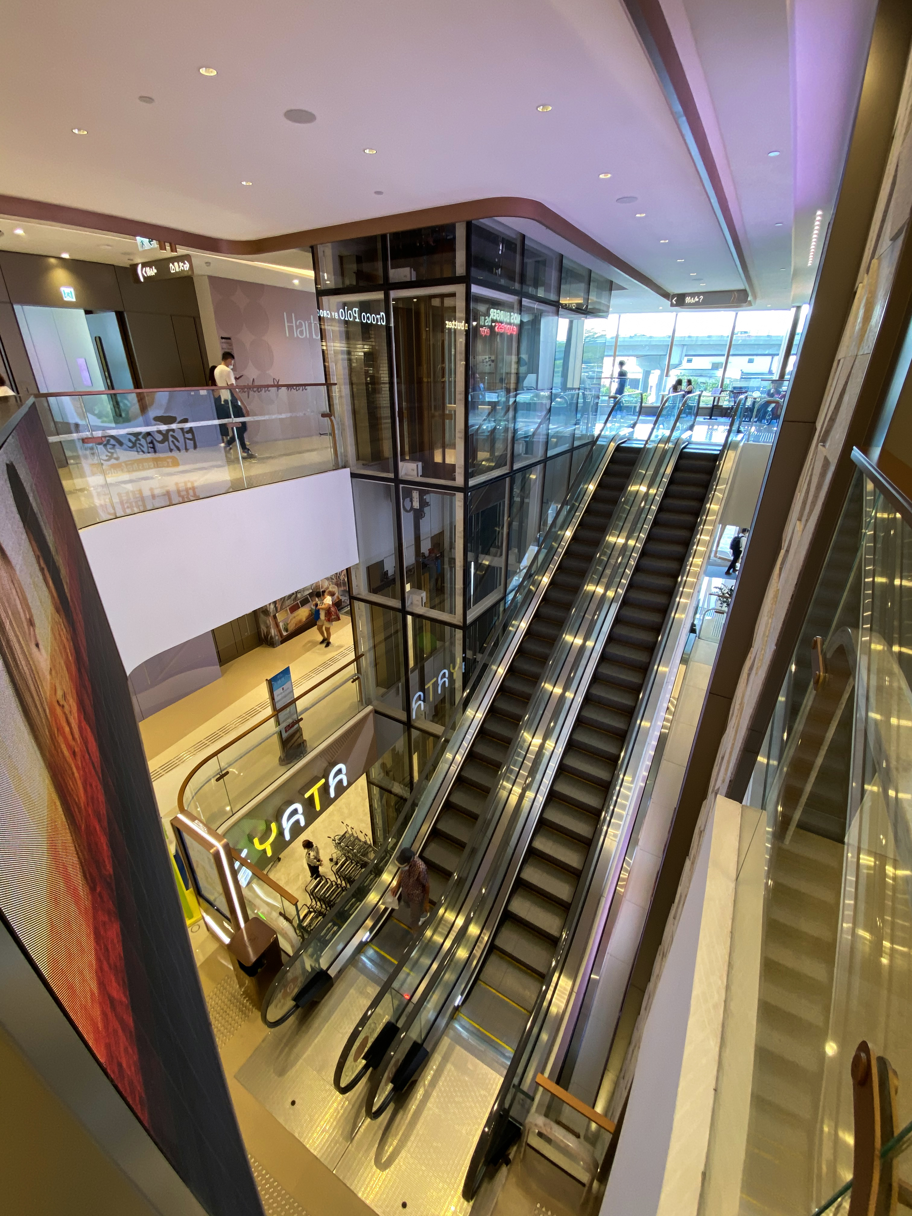 Harbour North Phase 2 Void